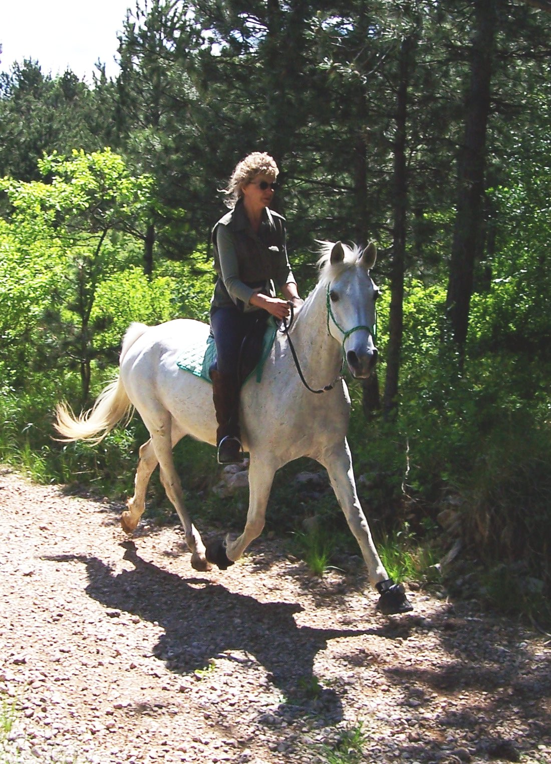 An Italian rider trotting on a barefoot mare into Monfalcone Karst, Monfalcone, Italy. Hard ground. Note booted fronts (transition period after de-shoeing).